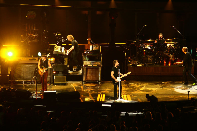 Music group Bon Jovi performing in 2007